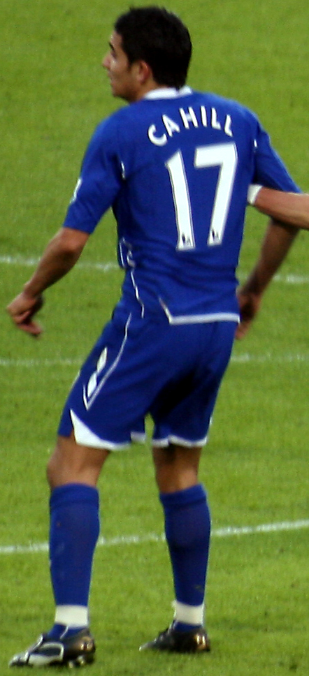 Tim Cahill. Image cropped from original at flickr.